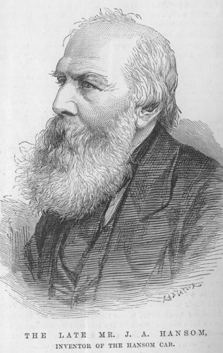 Portrait of Joseph Hansom